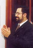 Mark A. Sammut and President of Latvia Vaira Vike-Freiberga, February 2004